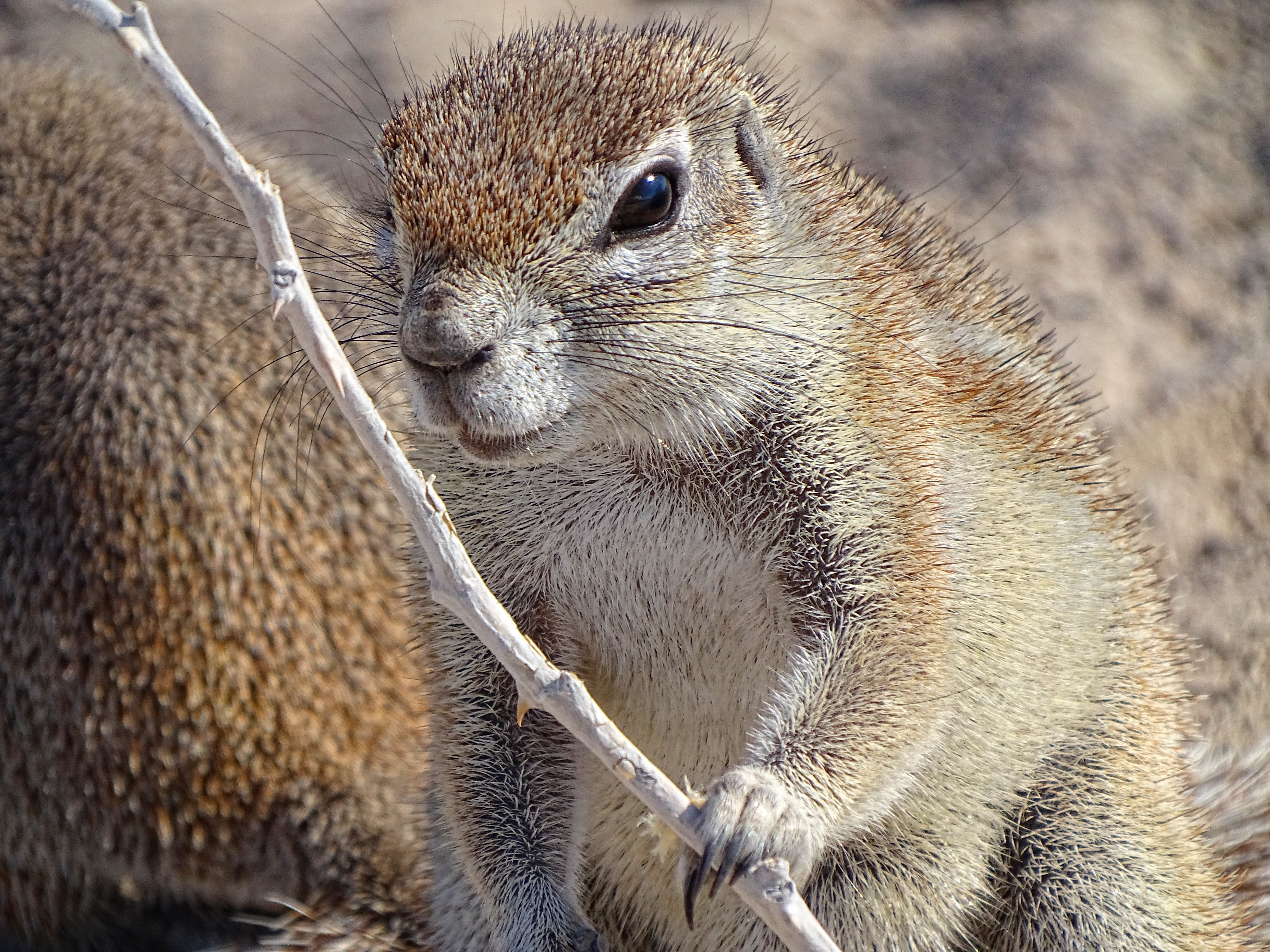 Close-up of a Damara ground squirrel living in Etosha National Park, Namibia.